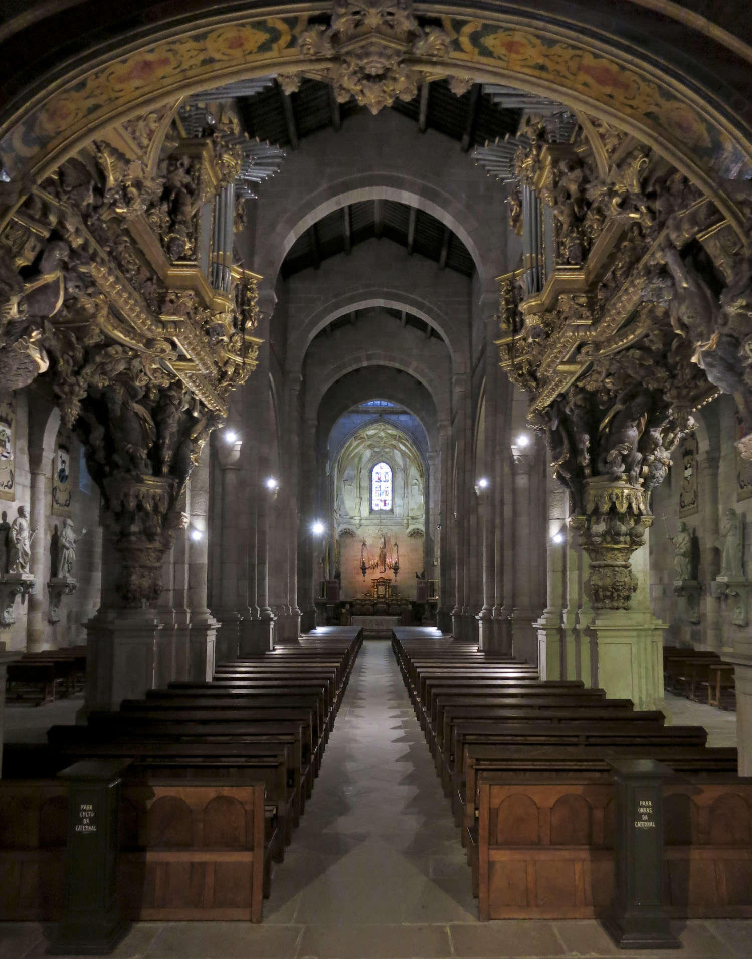 Interior of Sé de Braga